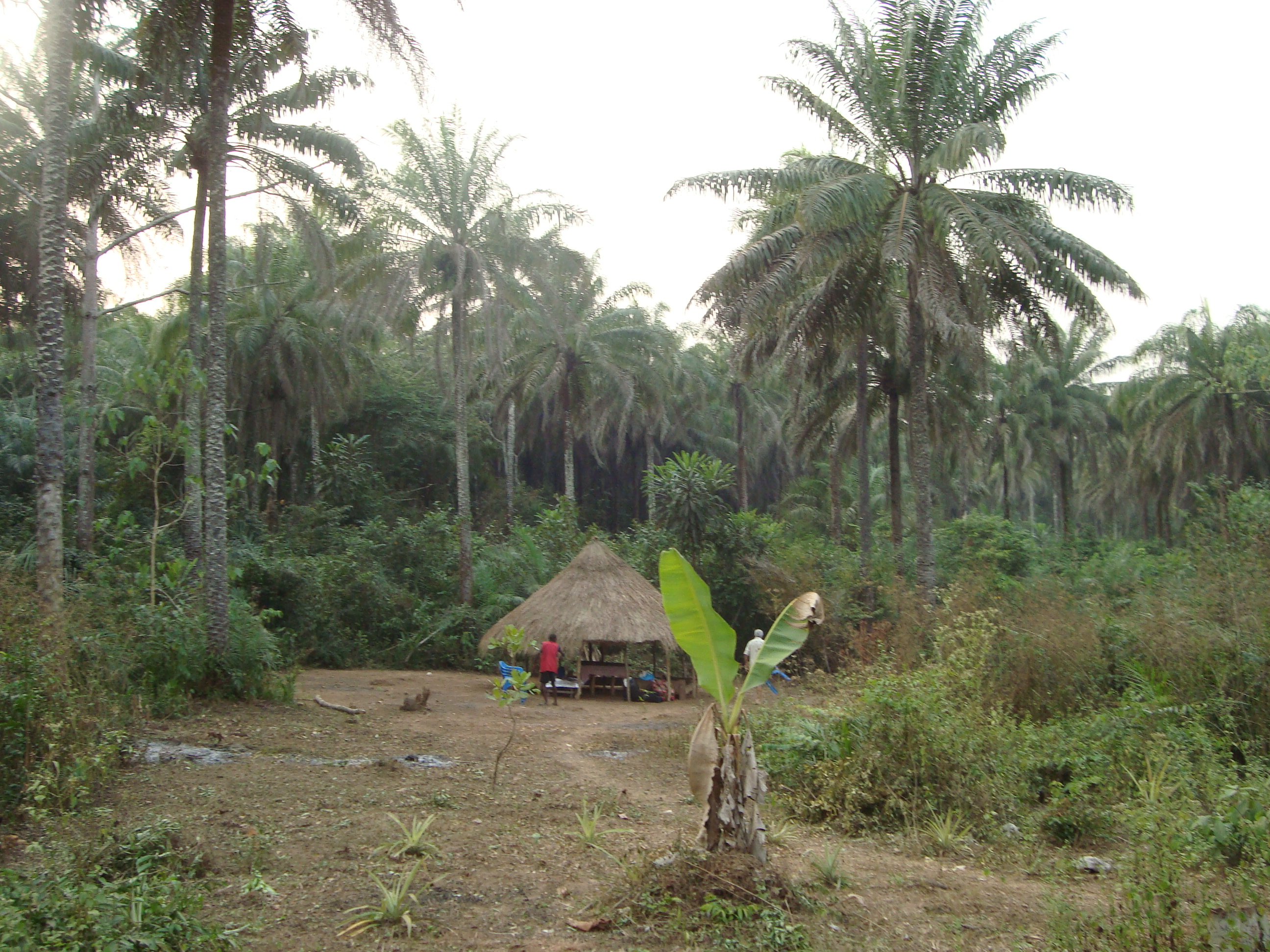 African Cottage around Port loko river